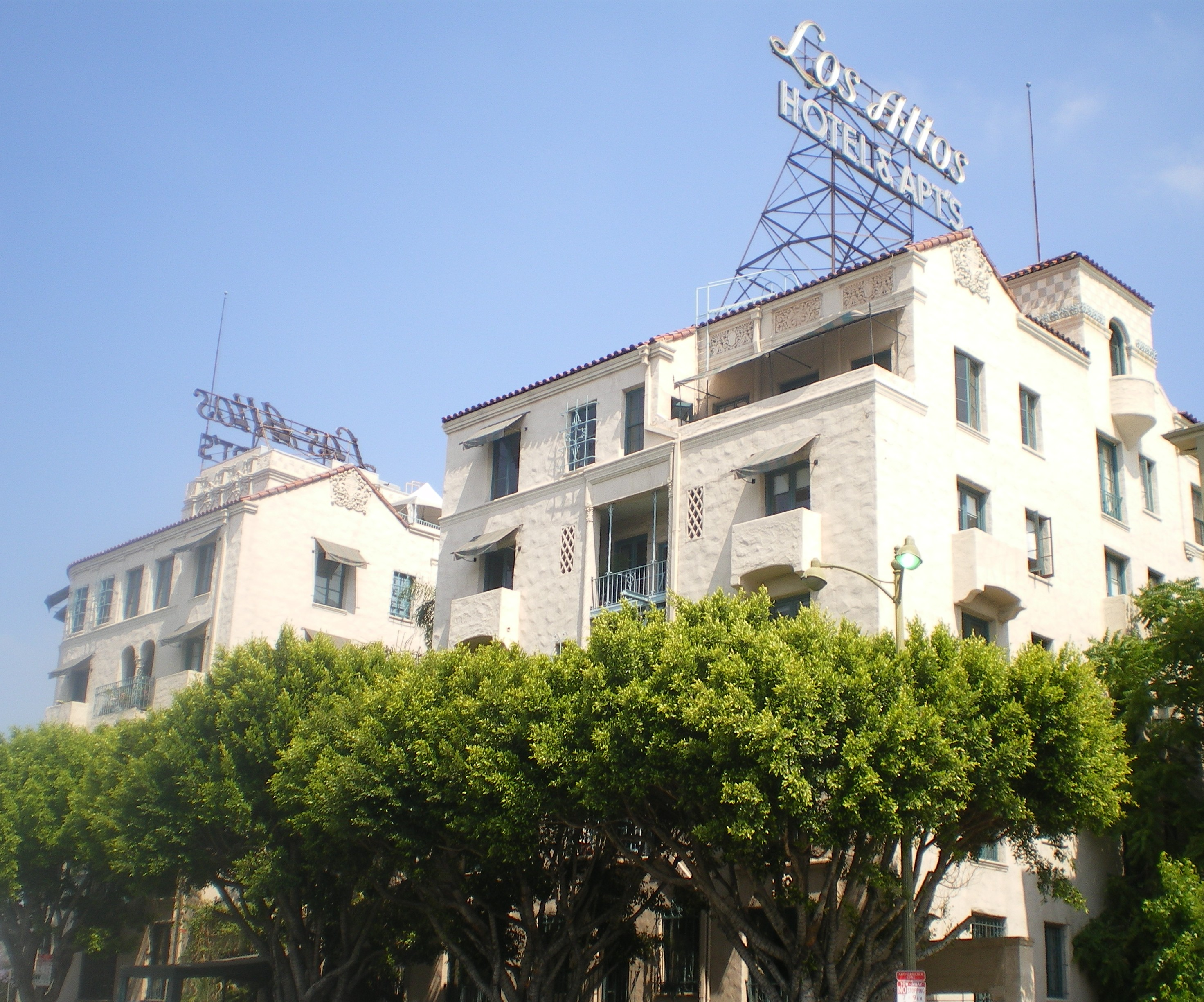 Los Altos Apartments, 4121 Wilshire Blvd., Los Angeles, California